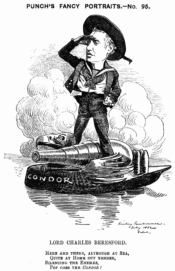 1882 Cartoon of Charles Beresford. Scanned from Punch, August 5, 1882, page 58 Artwork by Edward Linley Sambourne